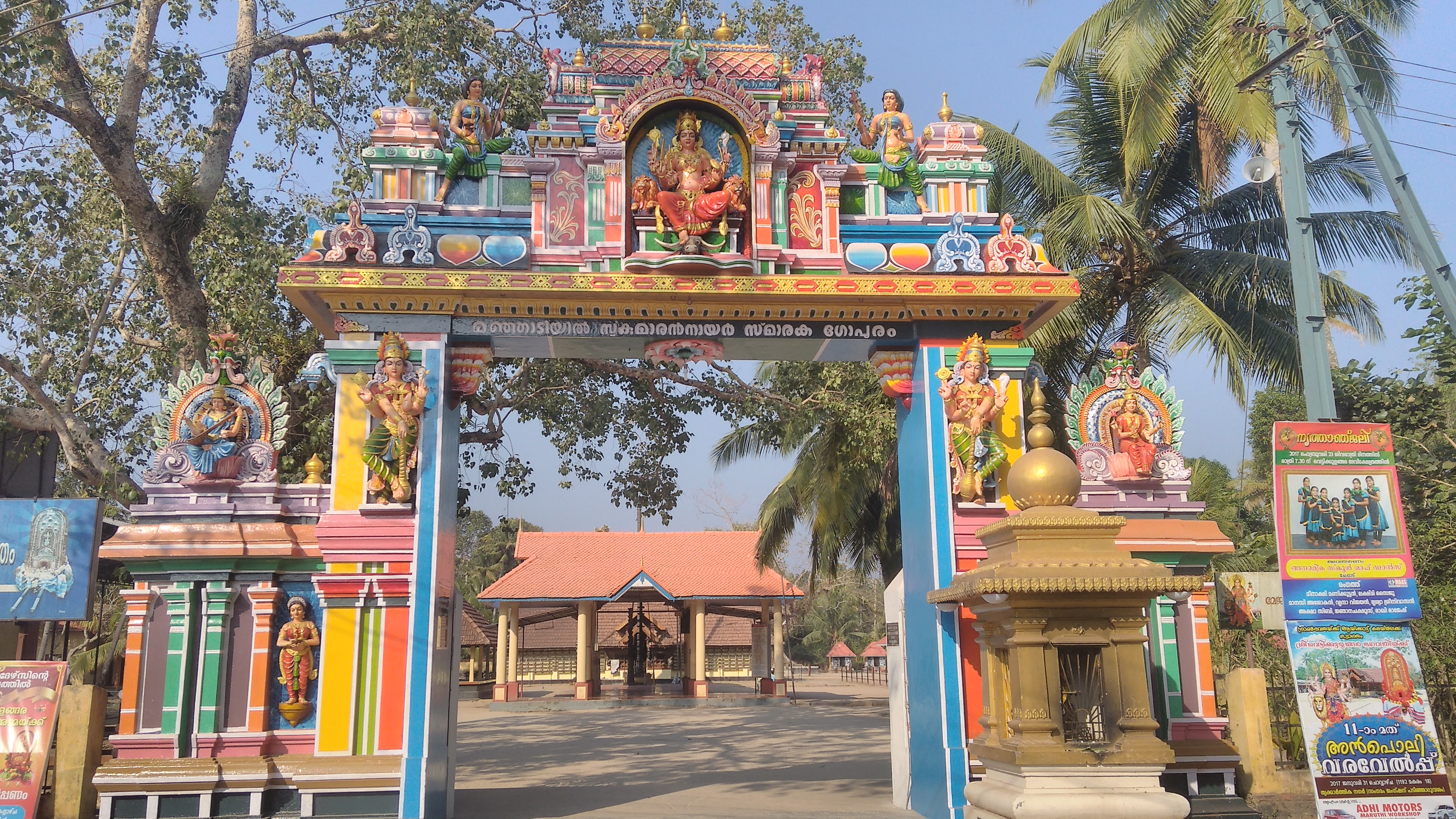 Front view of the temple